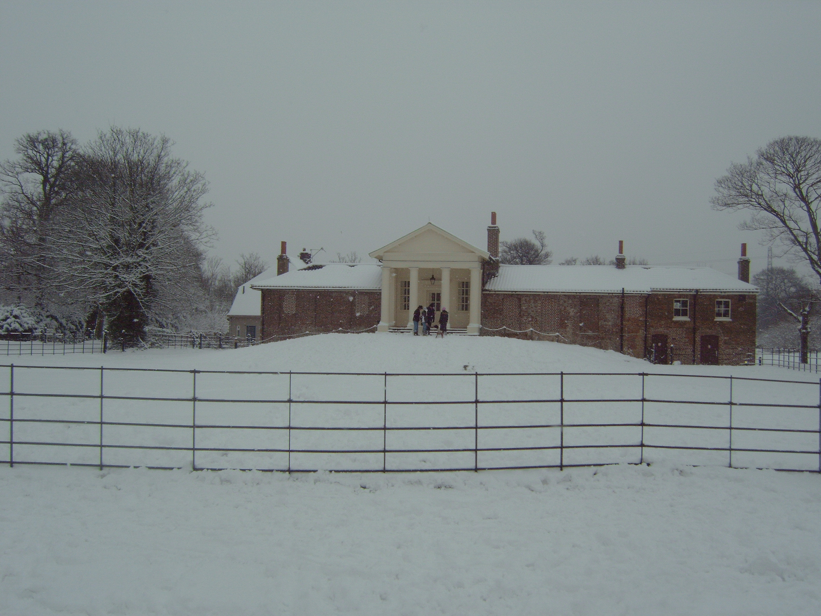 The Temple, Wanstead Park